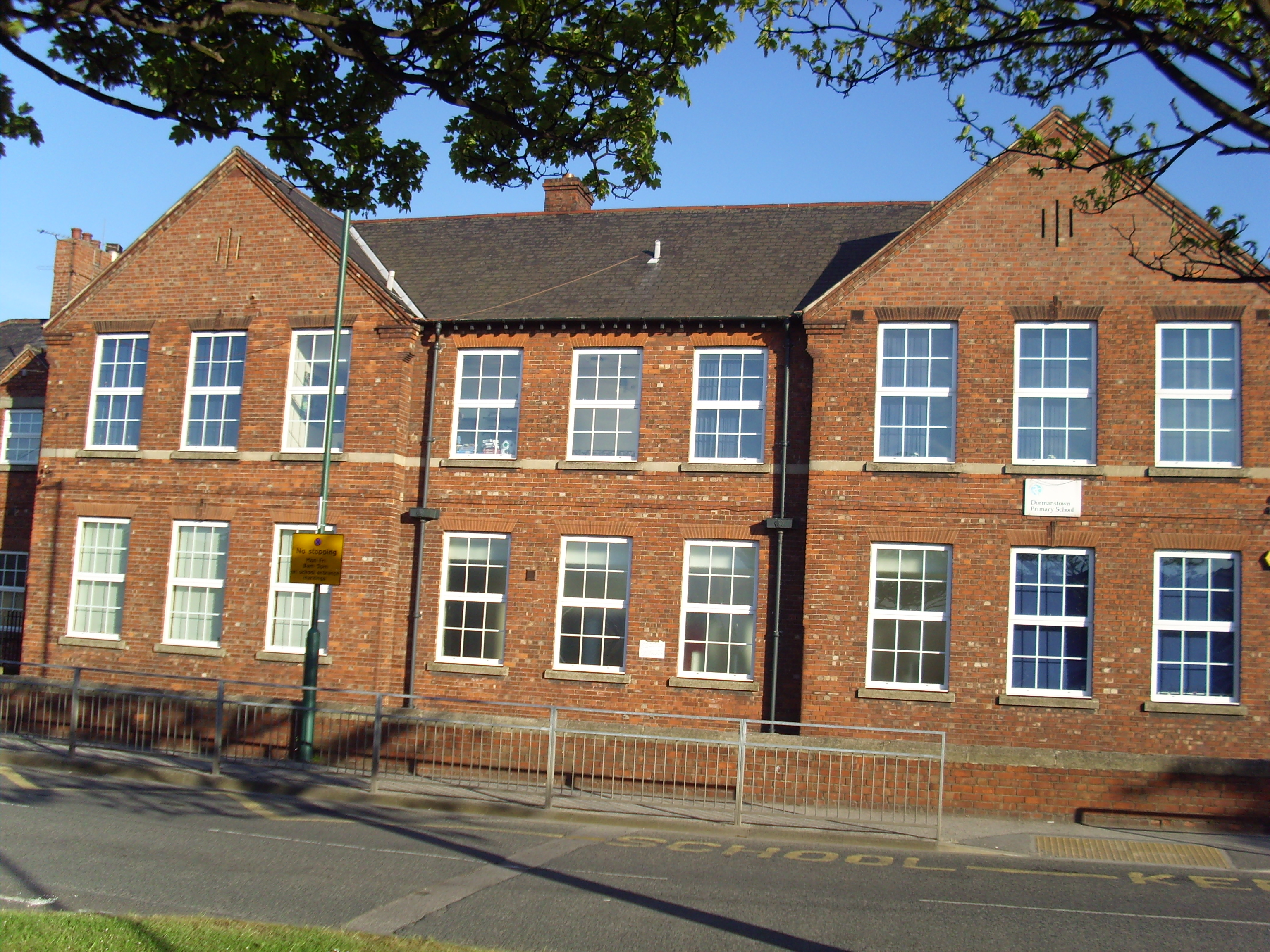 This is a photo of Dormanstown Primary School